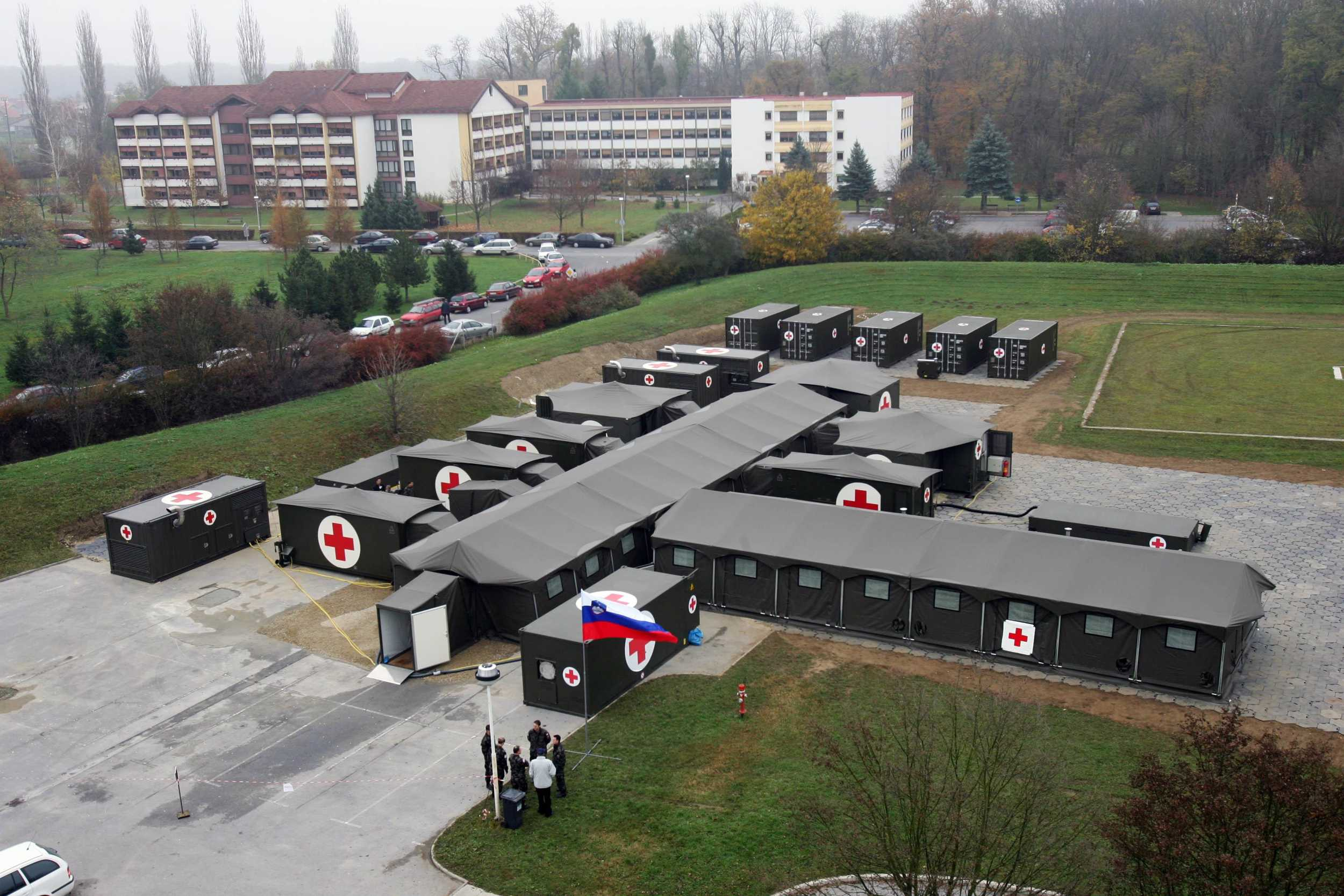 Slovenian field hospital Role-2.